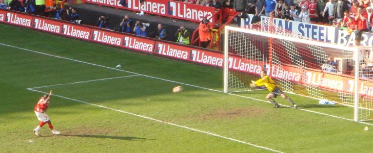 Darren Bent. Image cropped from original at flickr.